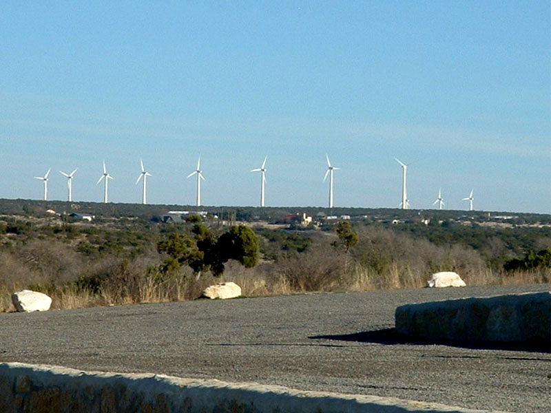 Wind farm in Big Spring, Texas, from the top of the Comanche Trail Ampitheatre.